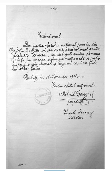 Mandate of Lazăr Coman, deputy in the Great National Assembly from Alba Iulia, on behalf of the commune of Galații Bistriței - Romania, 1918Română: Credenționalul lui Lazăr Coman, deputat în Marea Adunare Națională de la Alba Iulia, din partea comunei Galaţii Bistriţei, 1918